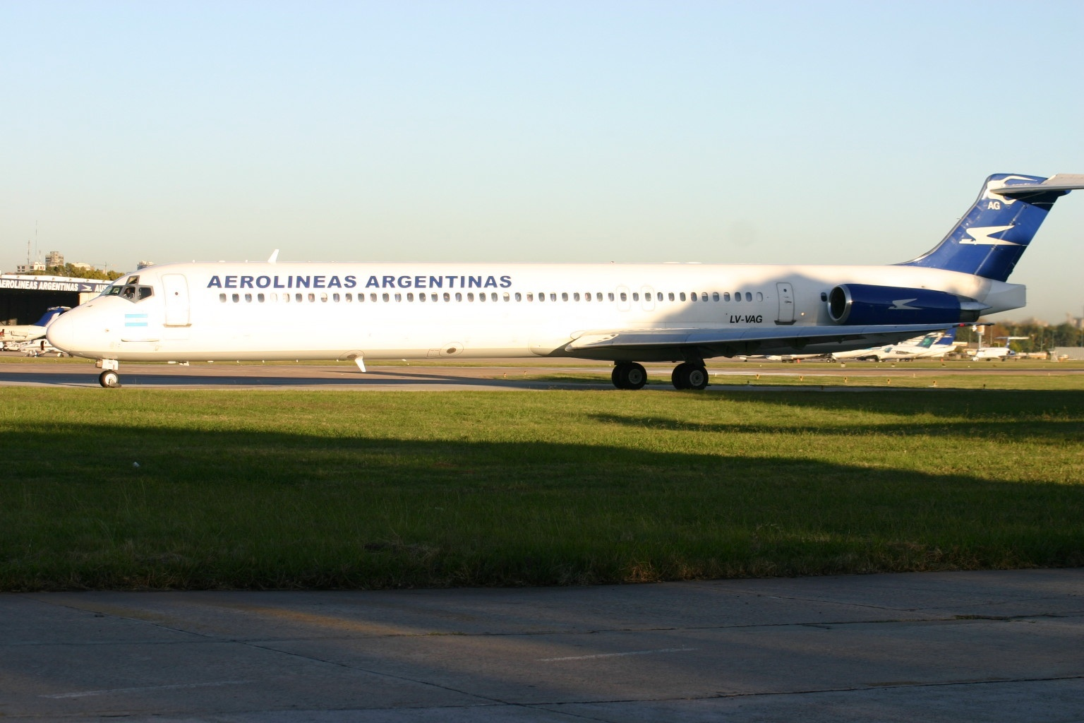 At Buenos Aires Aeroparque